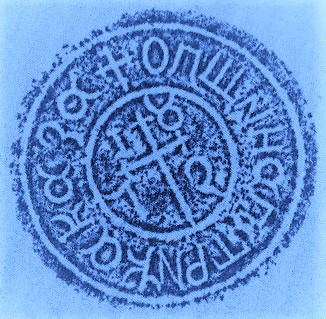 Seal of the Petrich Bulgarian Municipality from 1872